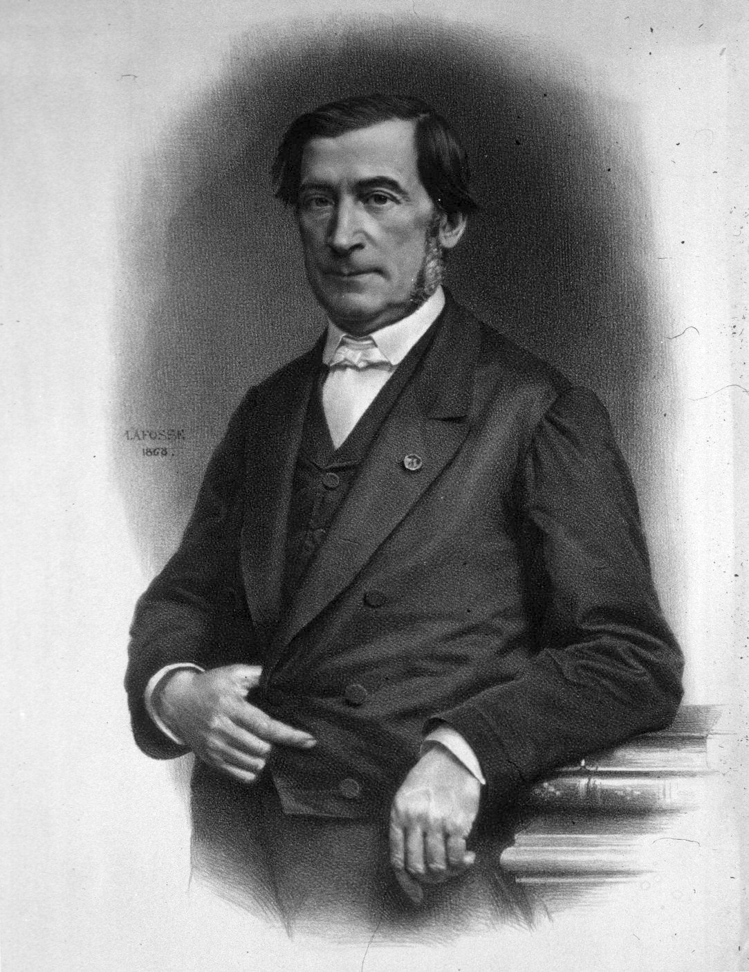 Apollinaire Bouchardat, French pharmacist who was influential in the treatment of diabetes before the use insulin